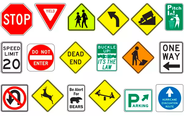 Showing examples of signs